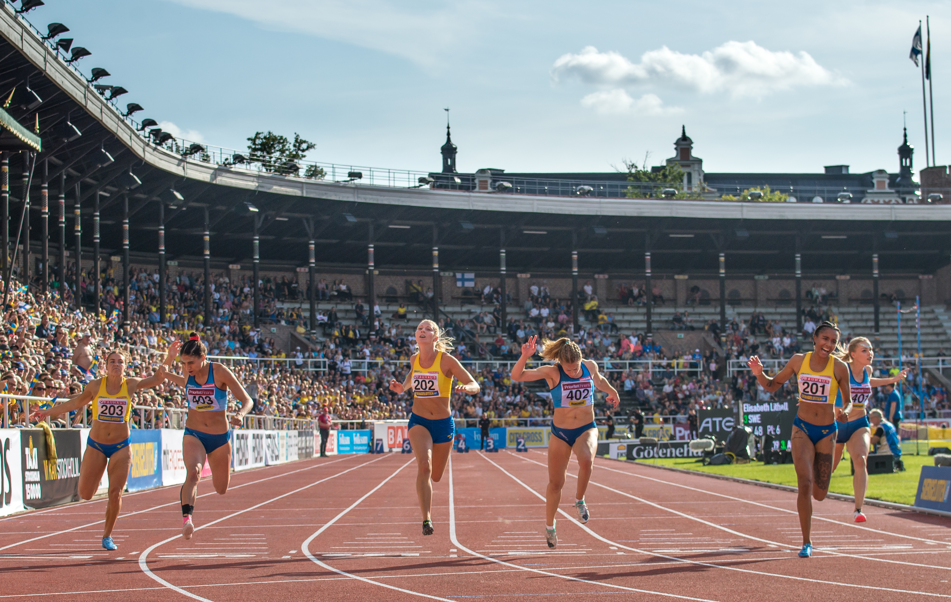 Elin Östlund (203), Daniella Busk (202) och Irene Ekelund (201) during the Finland-Sweden Athletics International at Stockholms Stadion on August 24, 2019.